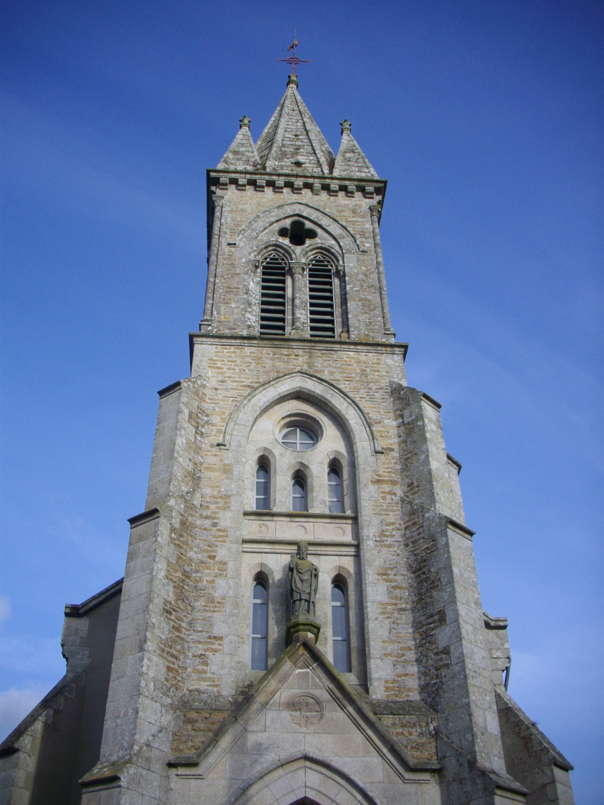 Bell tower of the church of Trédion (Morbihan, France)